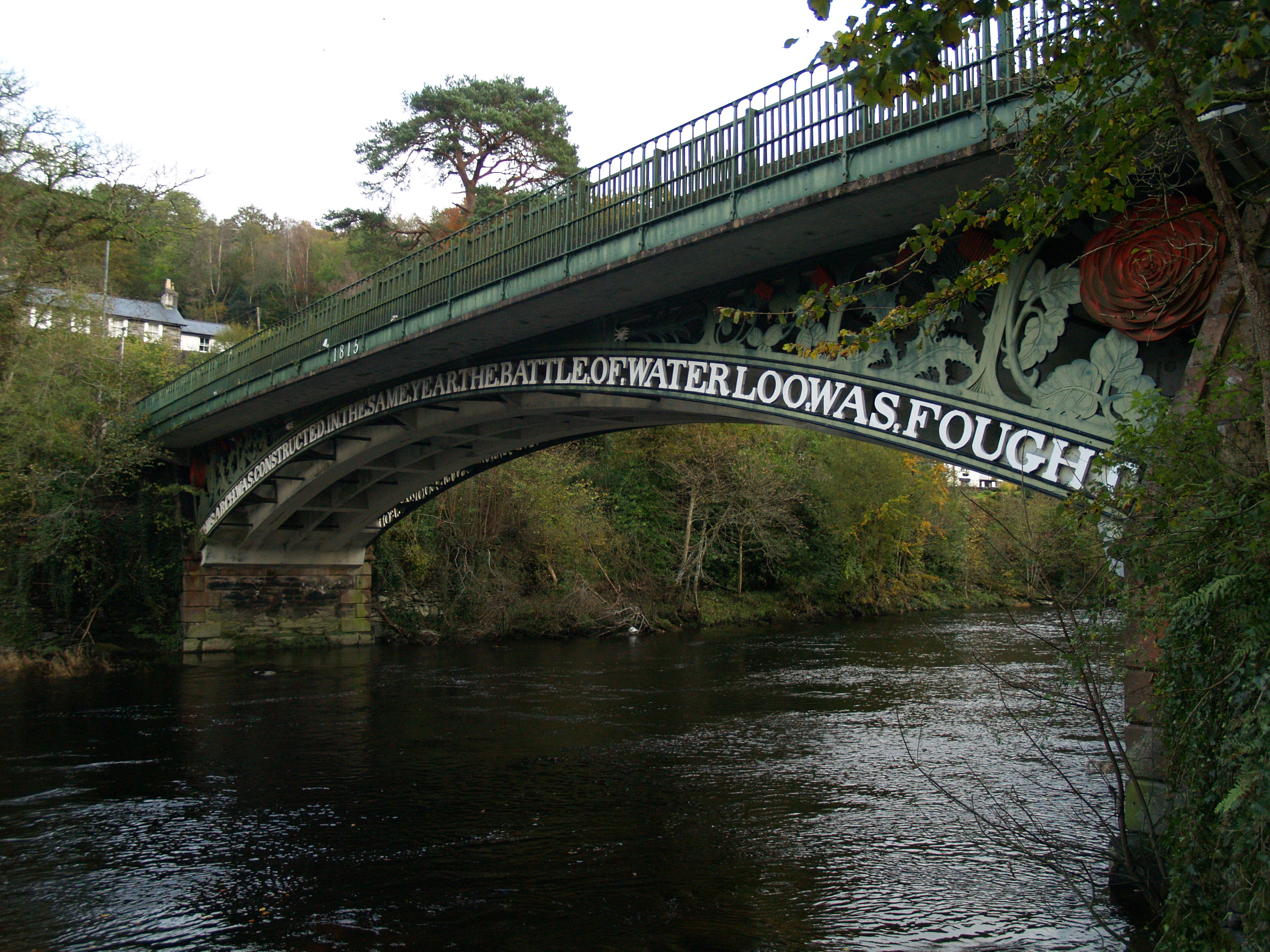 Waterloo Bridge, Betws-y-Coed